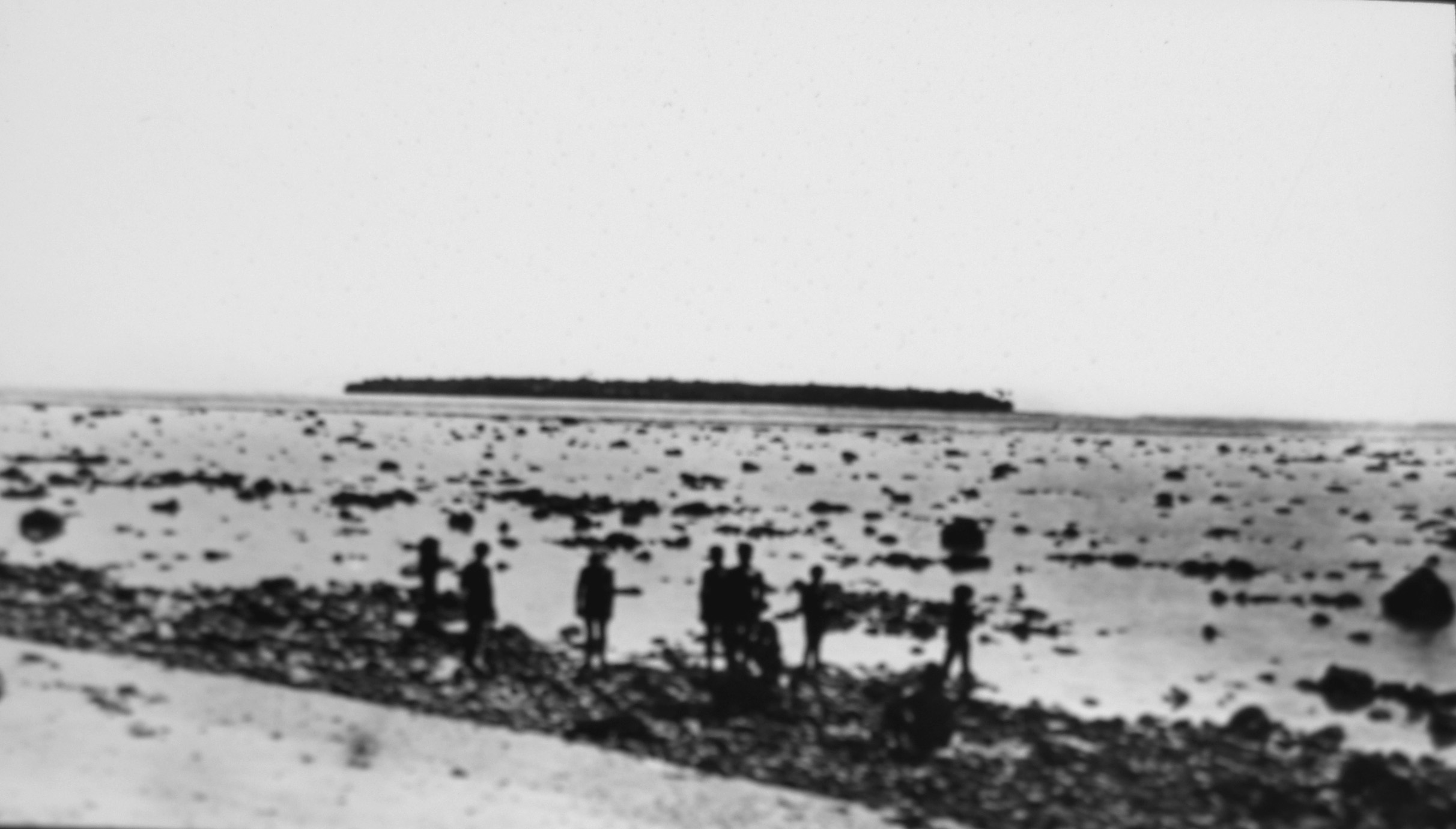 Coral reef and a groop of locals. Further away, Fana Island.